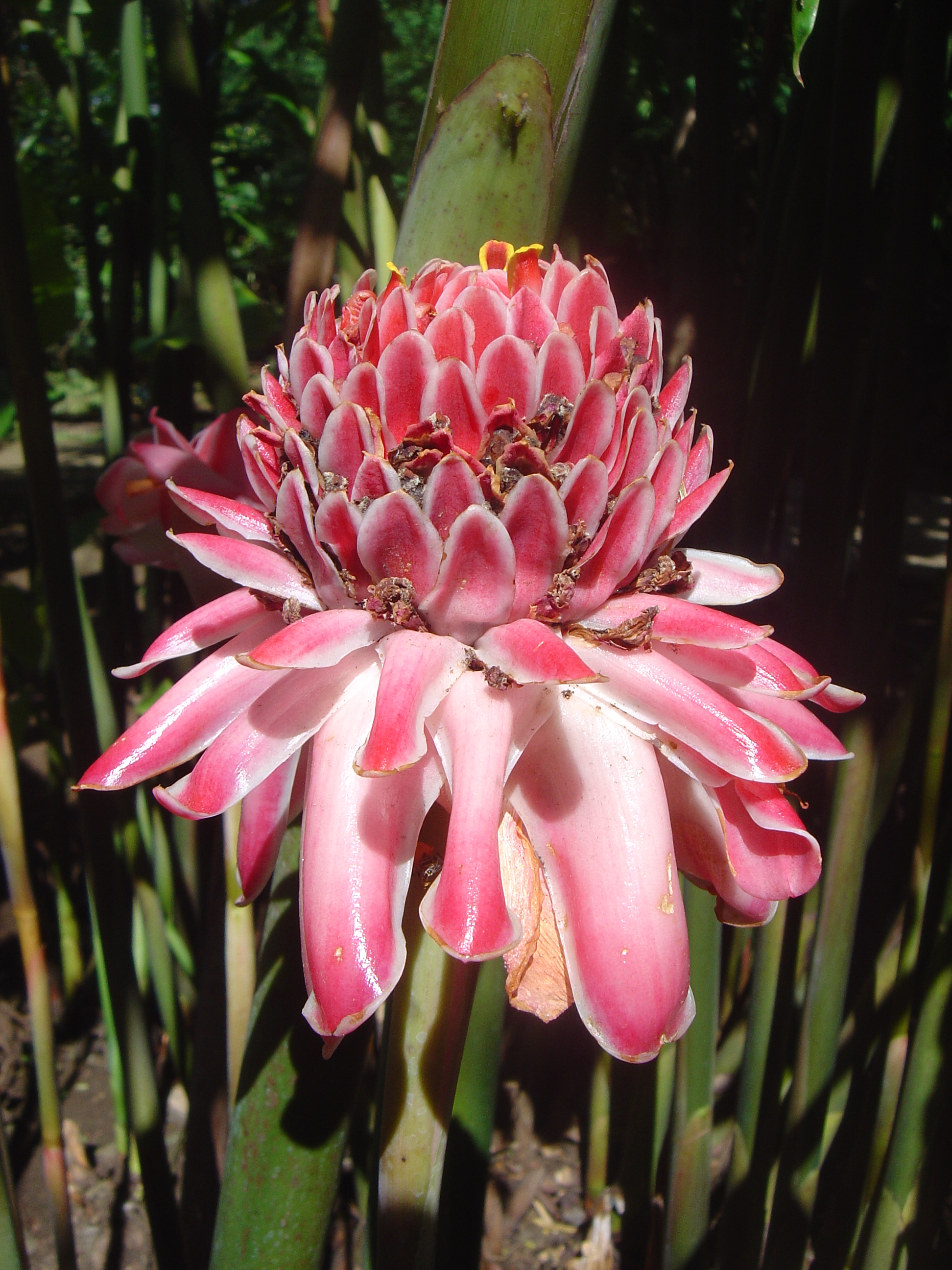 Photograph taken at the Jardin d'Éden botanical park, Saint-Gilles les Bains (commune of Saint-Paul), Réunion Island (Indian Ocean, a part of the French Republic).